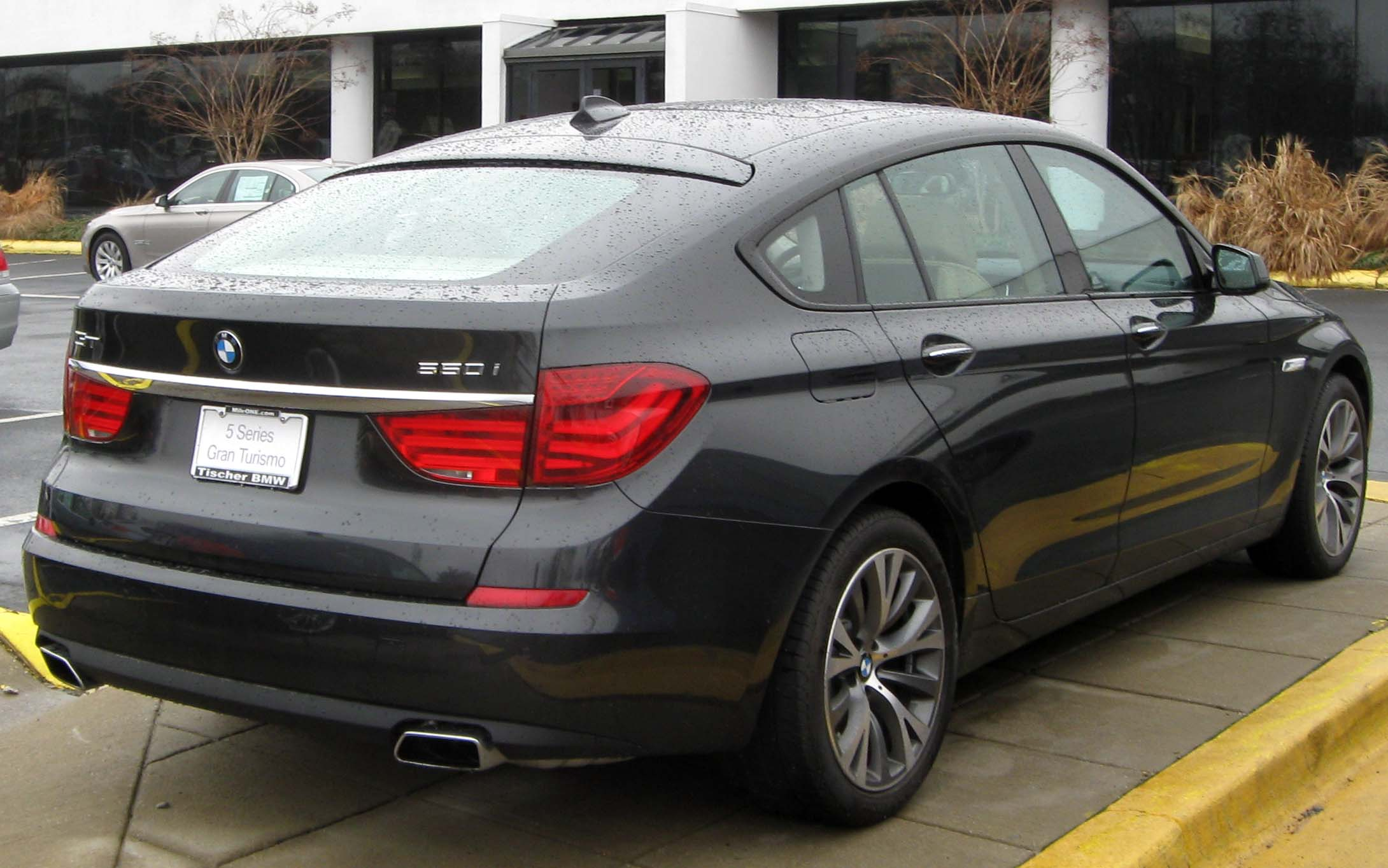 2010 BMW 550i GT photographed in Silver Spring, Maryland, USA.